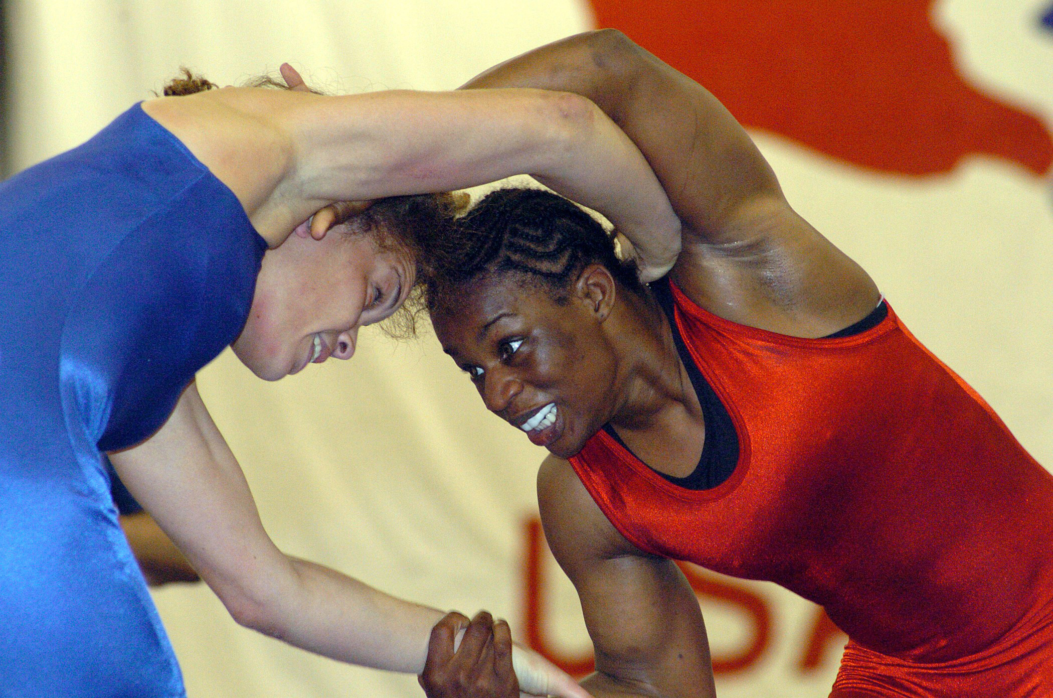 July 20, 2006 U.S. Army World Class Athlete Program Sgt. Tina George (right) wins a bronze medal April 15 with a 2-1, 4-1 victory over Leigh Jaynes of Colorado Springs, Colo., in the 121-pound women’s freestyle division of the 2006 U.S. National Wrestling Championships at Las Vegas Convention Center. George is scheduled to wrestle for Team USA in the 2006 World Wrestling Championships Sept. 26 through Oct. 1 in Guangzhou, China.